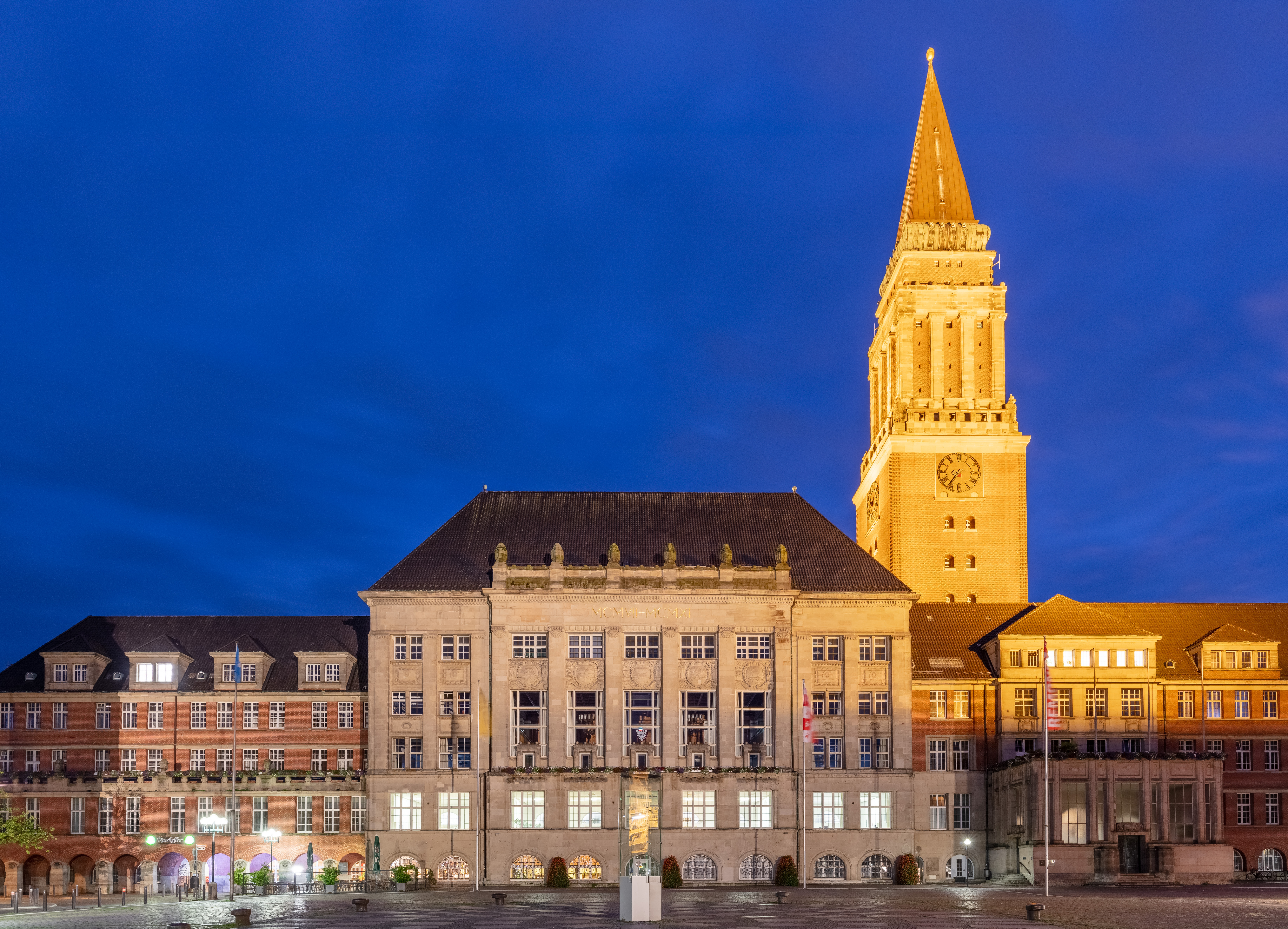 Town hall of Kiel, capital of Schleswig-Holstein, Germany. Its tower, which is 106 metres (348 ft) high, is one of the city landmarks.